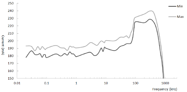 This shows the effect of electrical impedance and how changing the frequency of current and voltage applied to a water electrolysis cell can increase the current density achieved and increase the efficiency of hydrogen production.